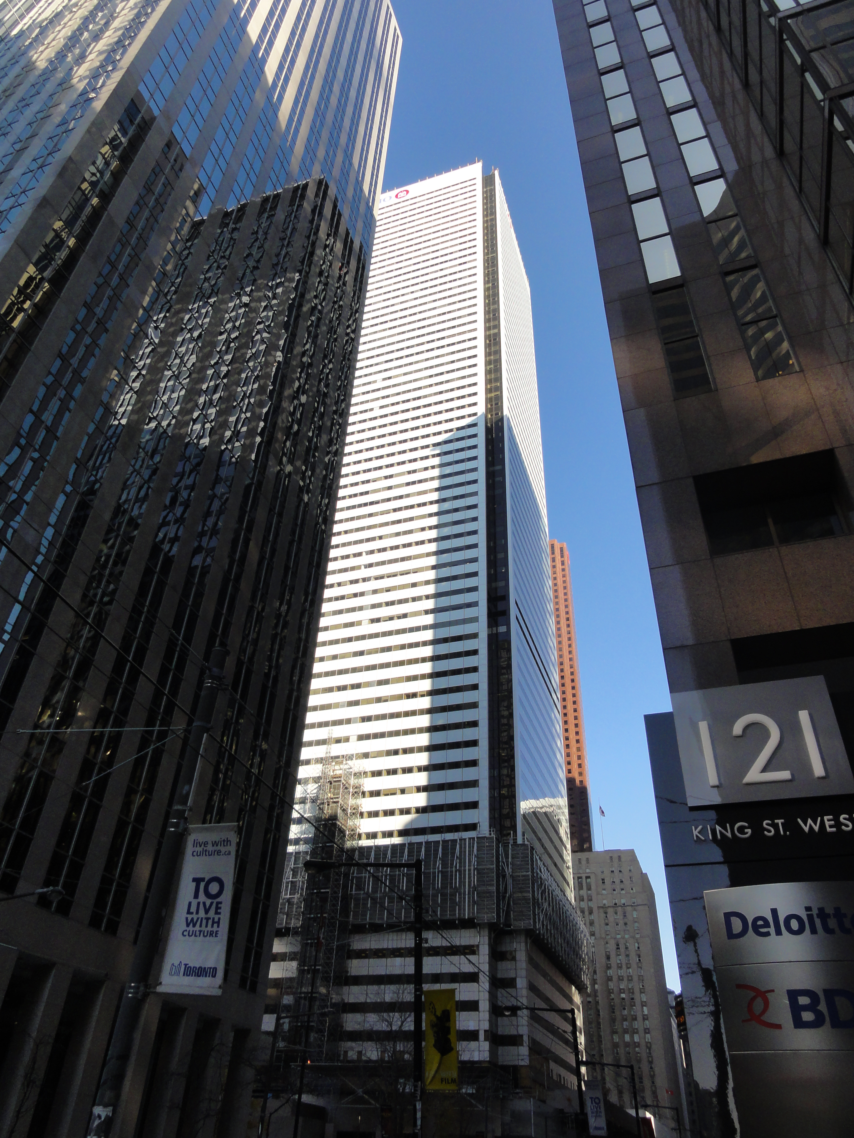 First Canadian Place